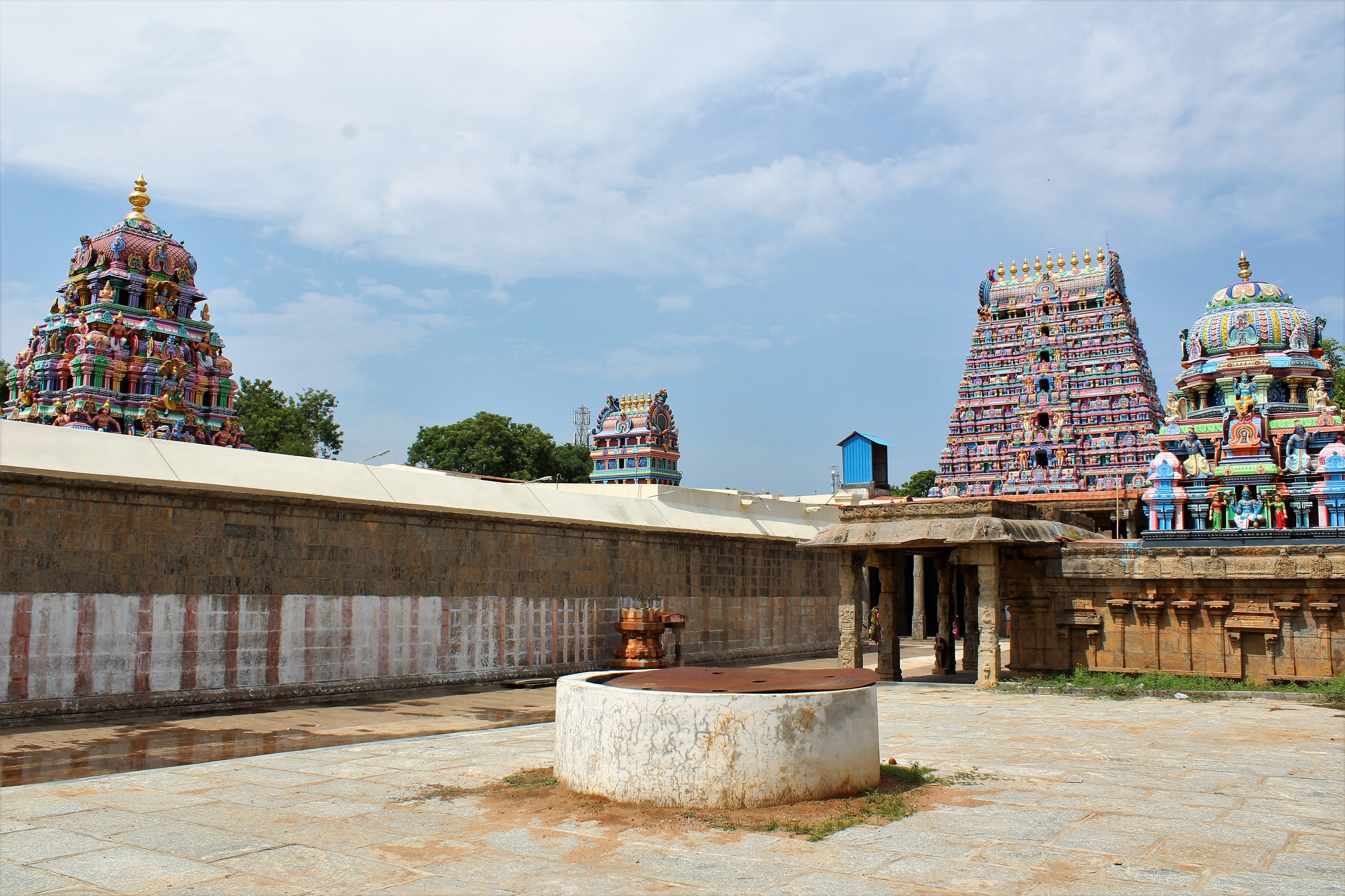 Srimushnam Bhuvarahaswamy temple